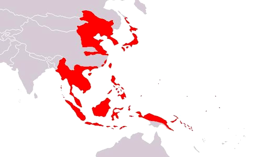 The Empire of Japan at its height in 1942.